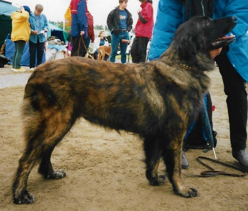 Estrela Mountain Dog.